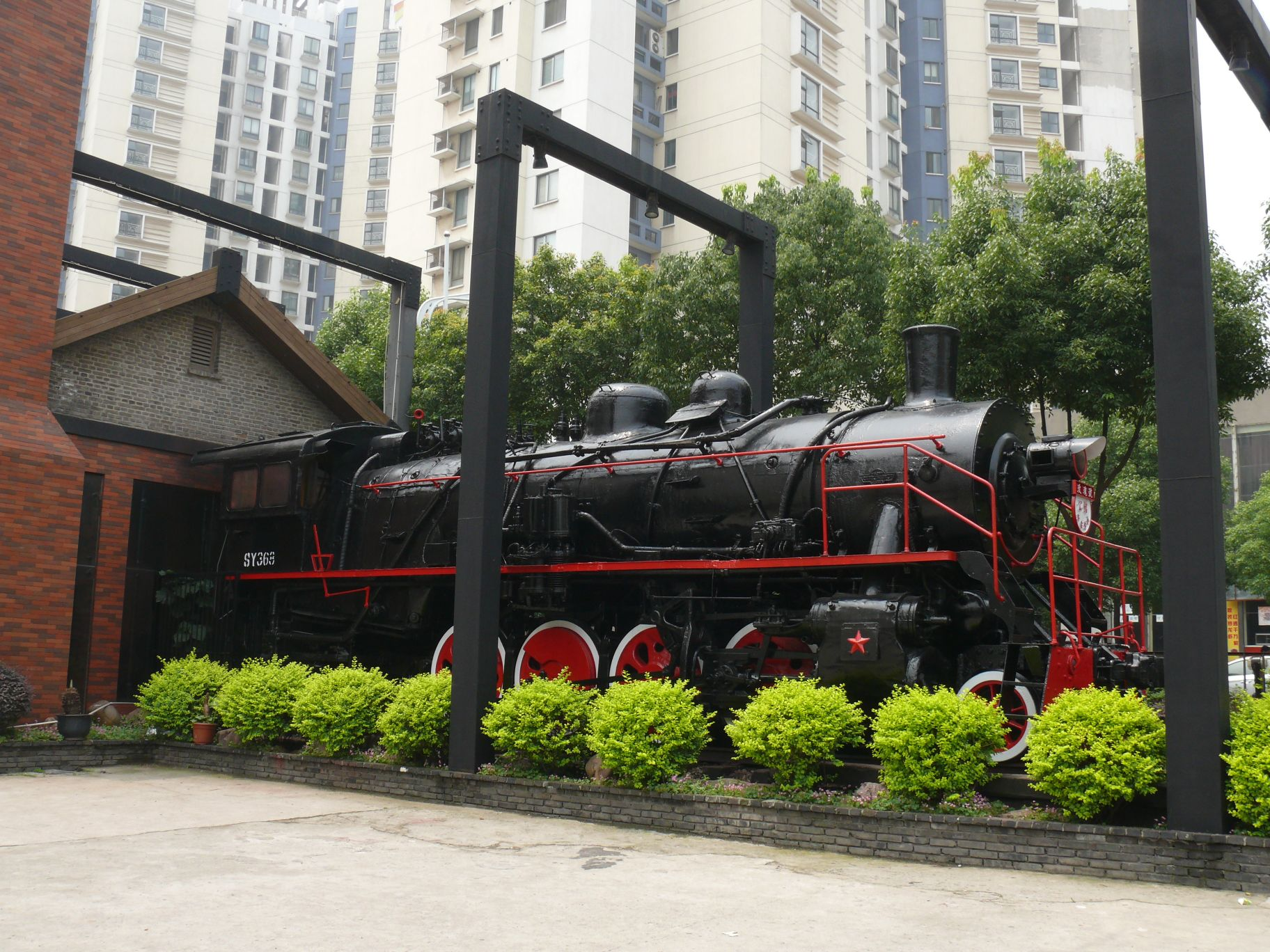 Steam locomotive SY368 in front of the restaurant Gourmet Mansion in Nanjing (Jiangsu, China).